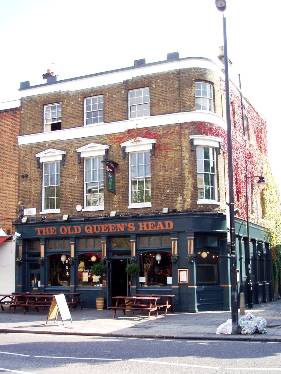 Old Queen's Head, Islington, N1. A grade II listed building